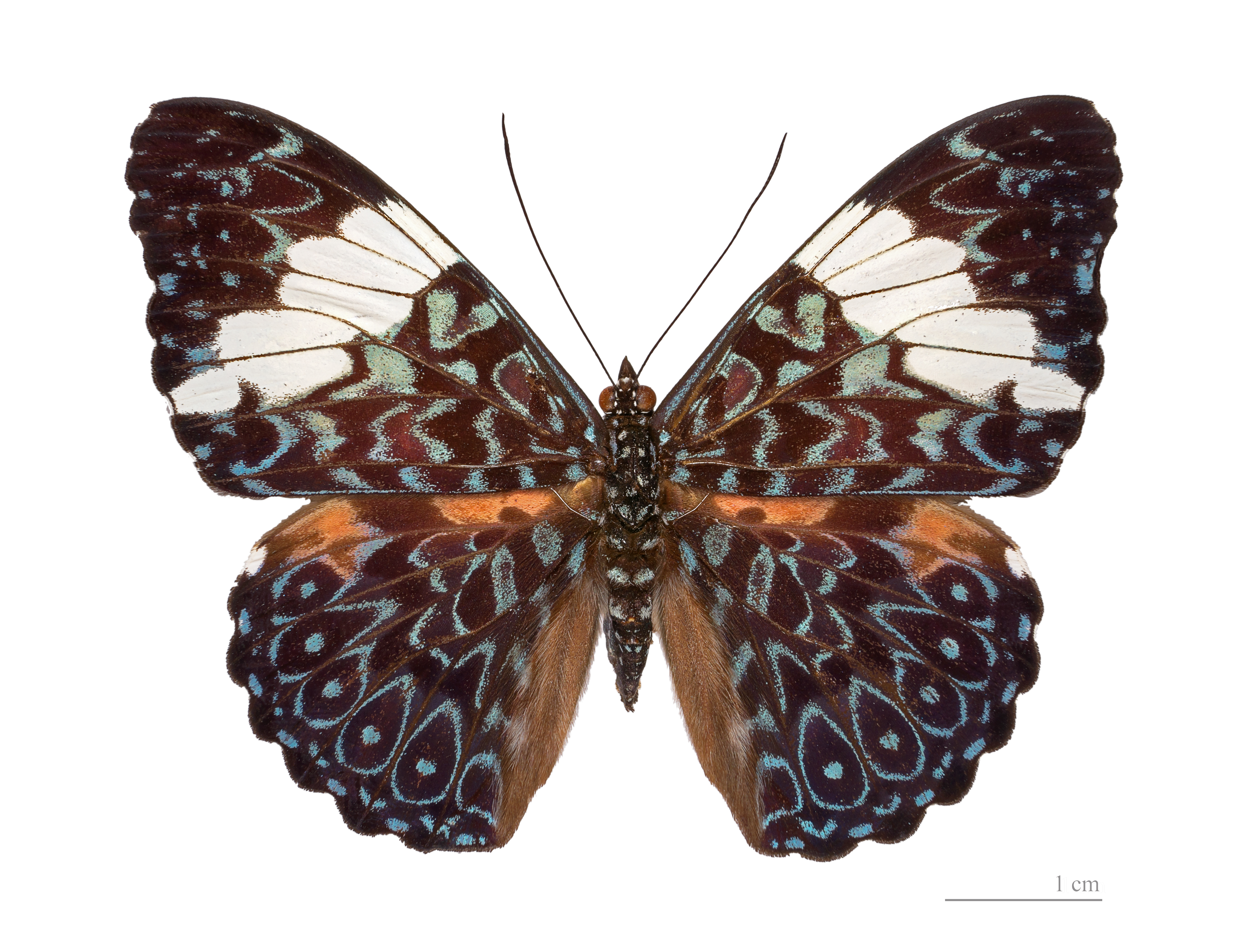 ♂ - Dorsal side Locality : Route de Kaw, PK38, French Guiana.